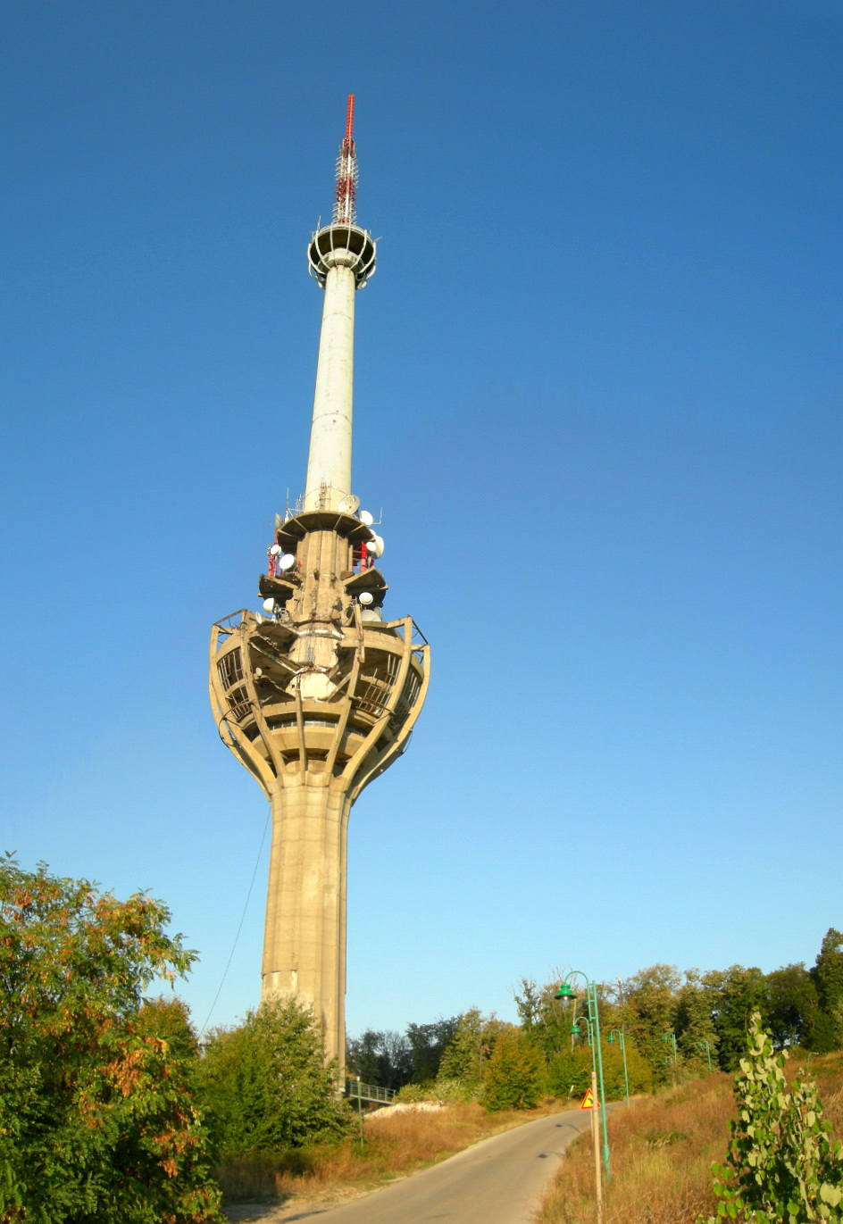 A TV tower located on Iriški Venac, near Novi Sad. Bombed during the NATO attack in May 1999.